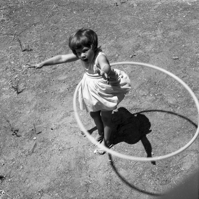 Girl twirling a Hula hoop, 1958 Other information Photo by George Garrigues.